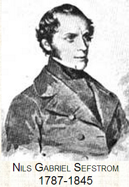 Nils Gabriel Sefström (1787-1845), discoverer of the chemical element Vanadium